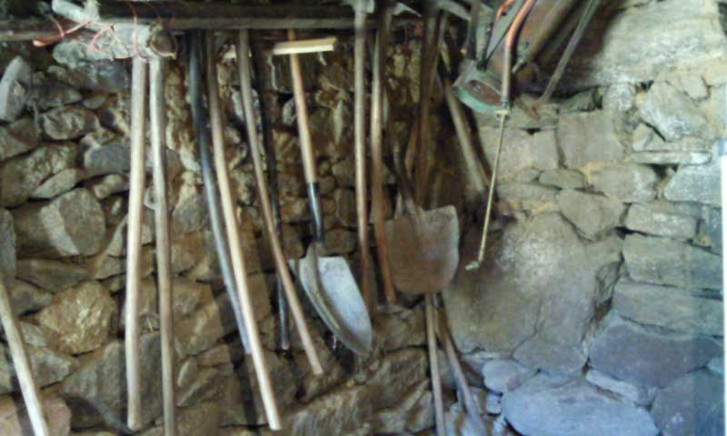 O Reboledo (Aperos e labranza)